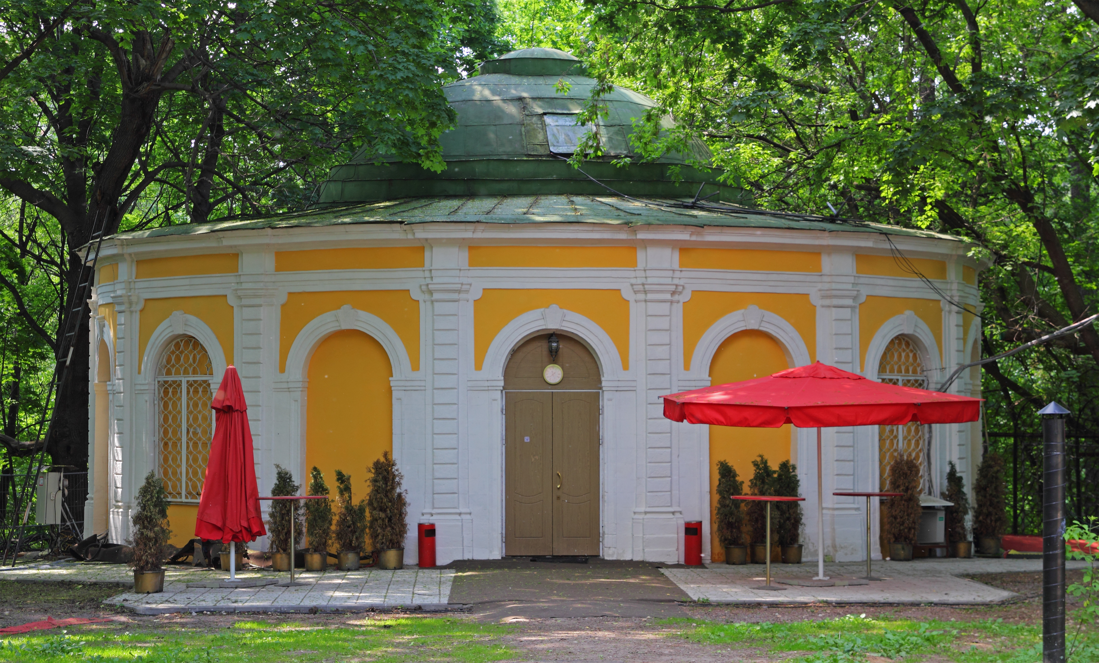 Moscow, Russia. Neskuchny Garden, Hunting Lodge.